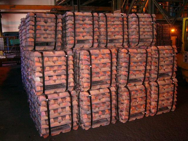 Copper ingots form the Codelco El Teniente copper mine.